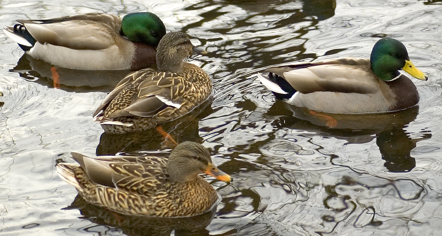 Ducks on the water.